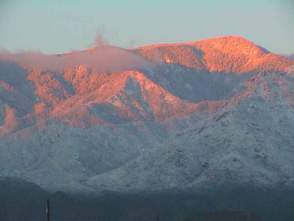 The image represents the Pinaleno Mountains range, part of the Madrean Sky Islands enclave mountains structure. It was photographed from the north of the mountains somewhere east of Safford, Graham County, on the United States Route 191.